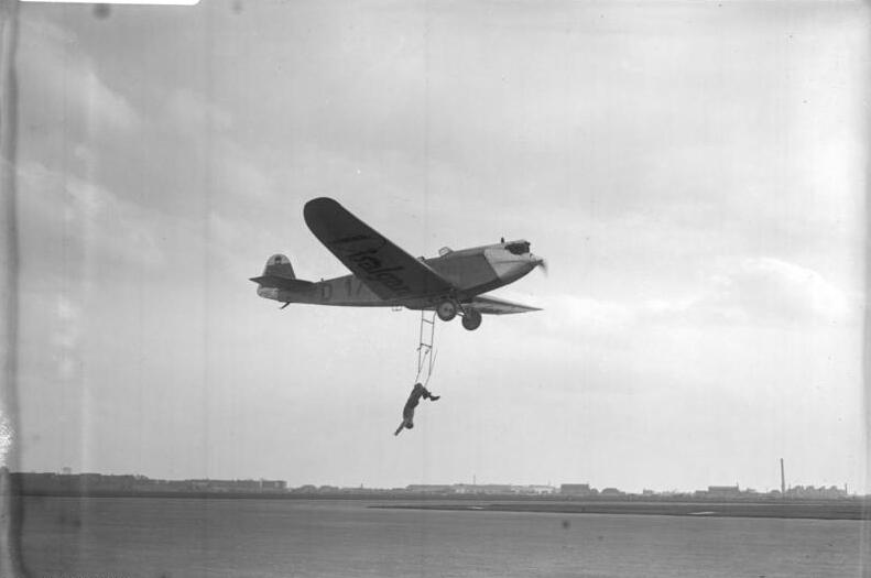 Klemm L.27 (D-1781), of Fritz Schindler